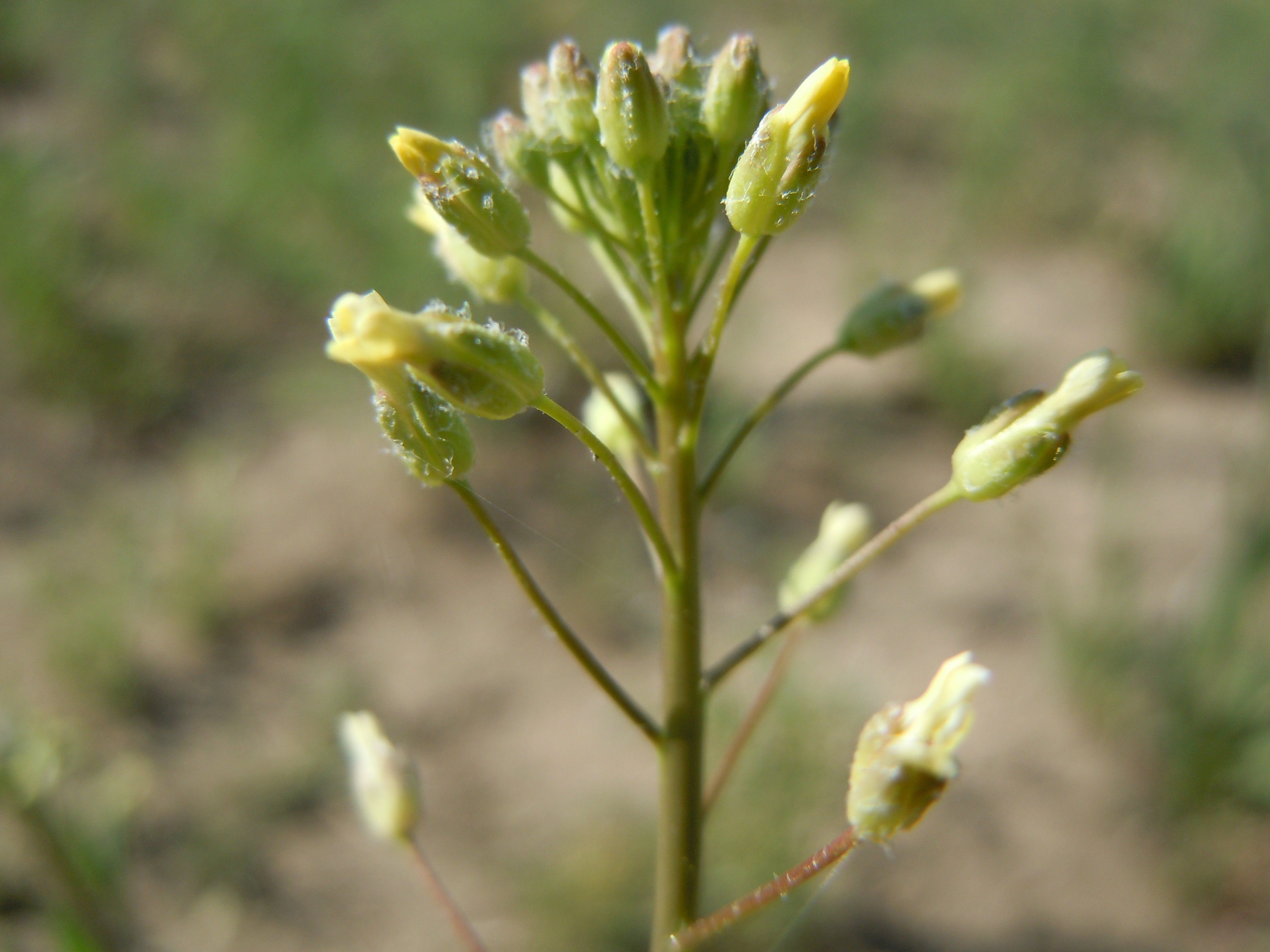 Camelina microcarpa growing most conspicuously in post-fire vegetation from the 2010 Jefferson fire. [RD28 between PBF and MFC.]